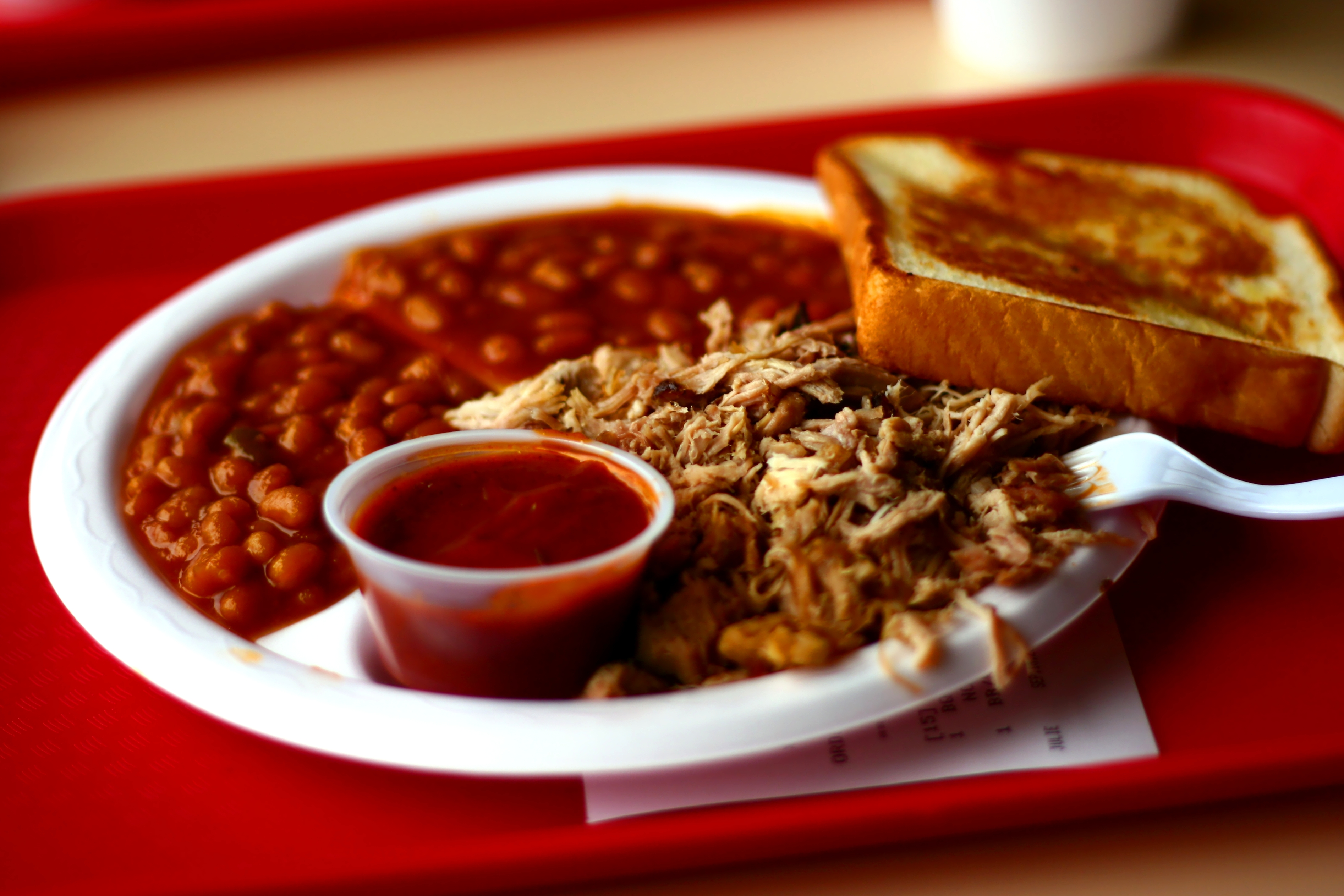 BBQ plate from the Bulldog Restaurant in Bald Knob, AR, served with double beans. I could eat this every day. When you go, get two milkshakes: one to drink there and one to go. I had chocolate. Greg recommends butterscotch.